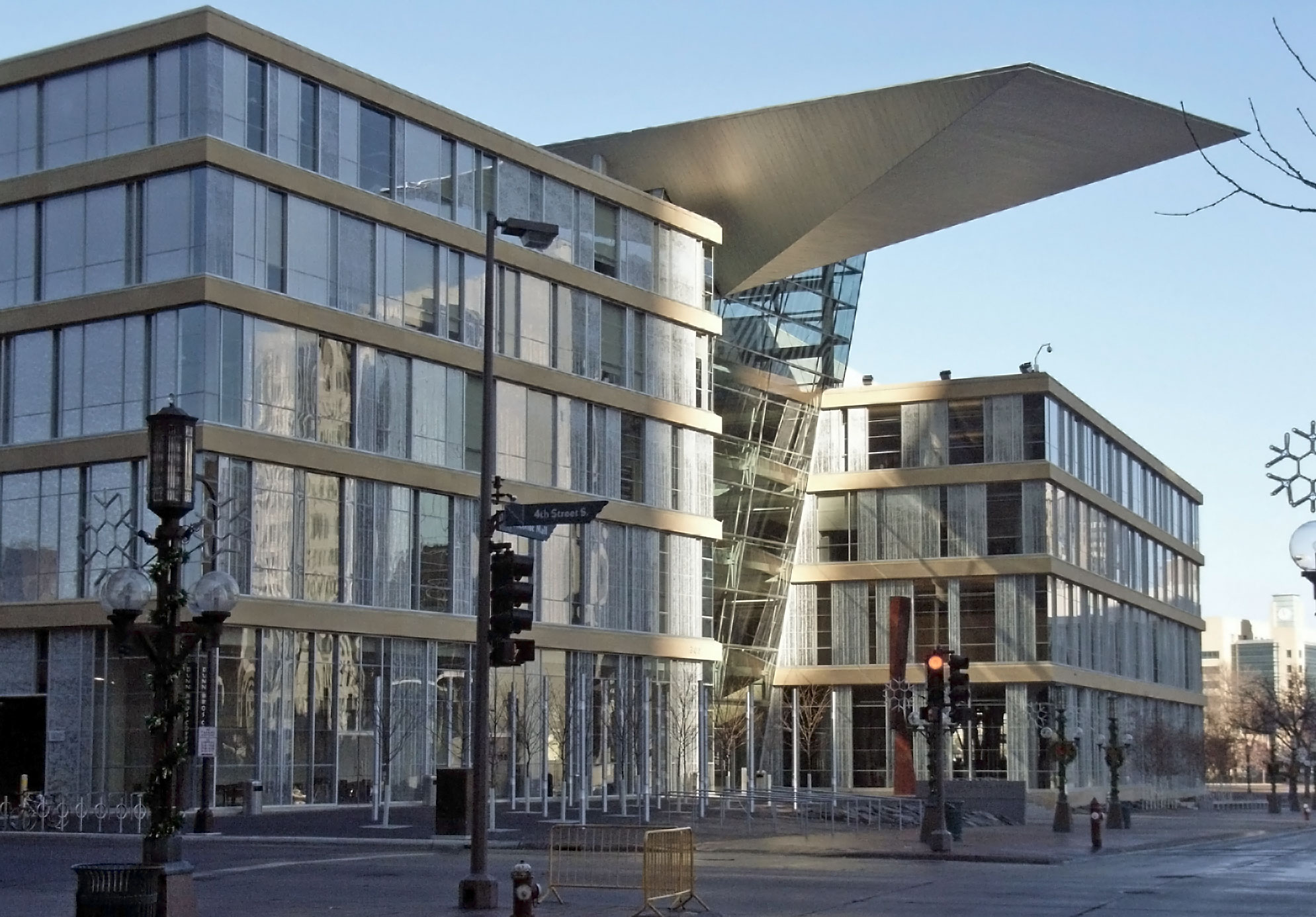 Central library of Minneapolis, Minnesota (USA). - Hennepin County Library (previously Minneapolis Public Library)